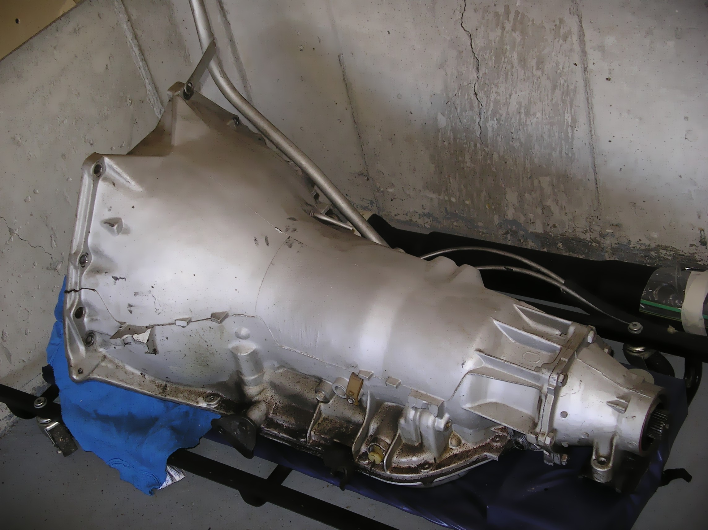 TH400. Turbo-Hydramatic 400 Transmission. This is a 3 speed automatic transmission made by General Motors.